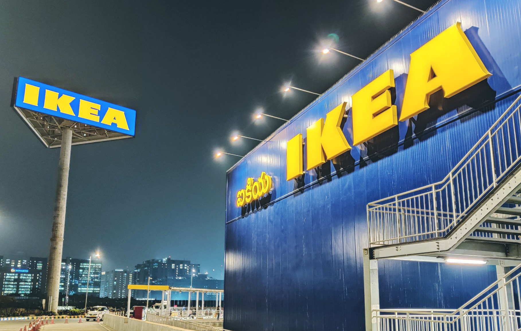 The IKEA store at Hyderabad, India